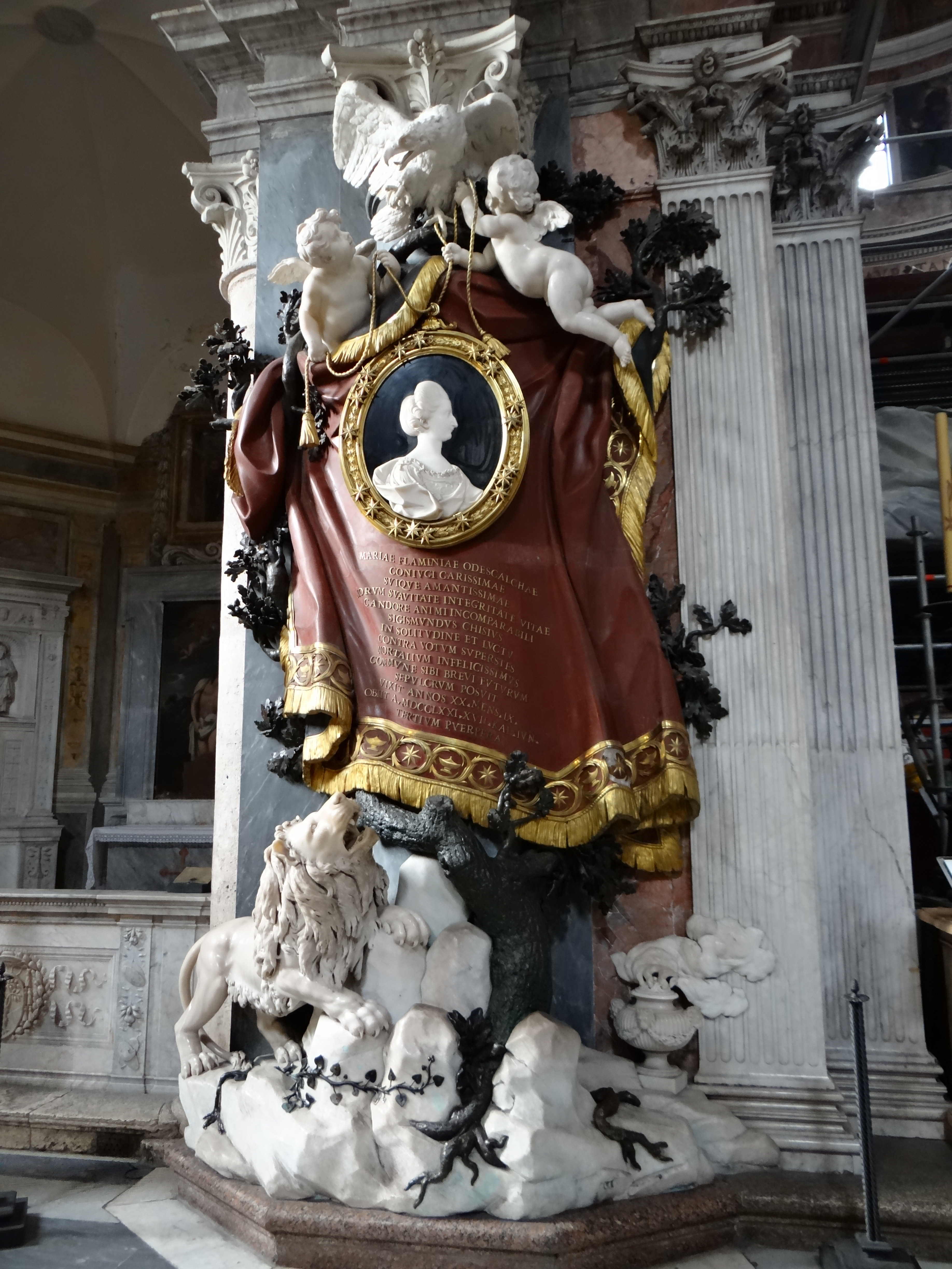 The tomb of Maria Flaminia Odescalchi Chigi in Santa Maria del Popolo, Rome. Work by Paolo Posi (1771).